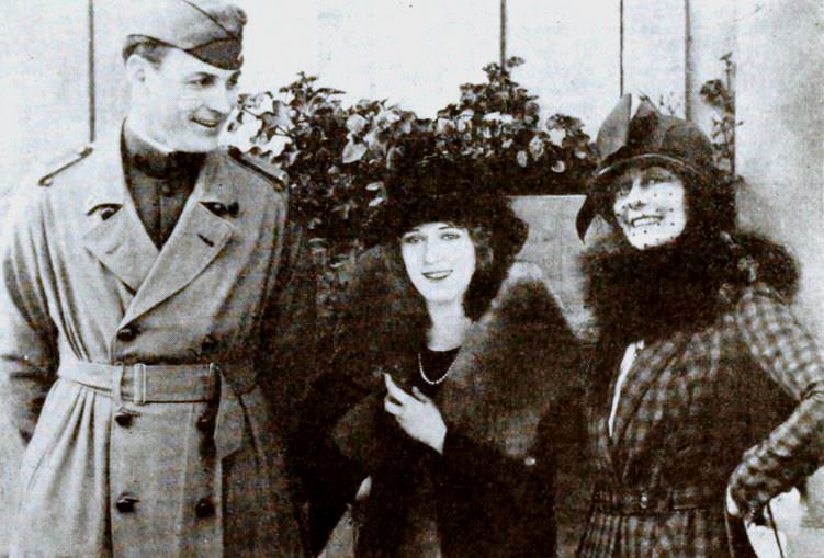 Newlyweds actor Fred Thomson and screenwriter Frances Marion and actress Mary Pickford, on page 53 of the December 20, 1919 Exhibitors Herald. The caption notes that Pickford had introduced Marion and Thomson.